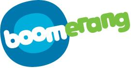 Logo of Boomerang Latin America